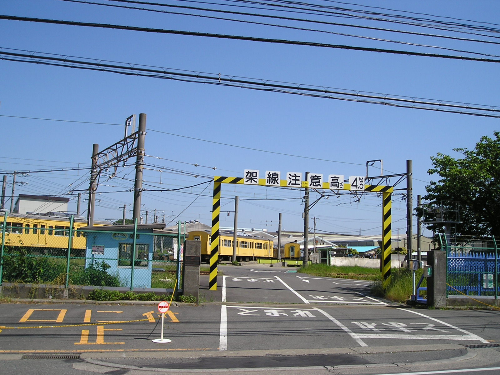 Kamakura General Rolling Stock Center Fukasawa area